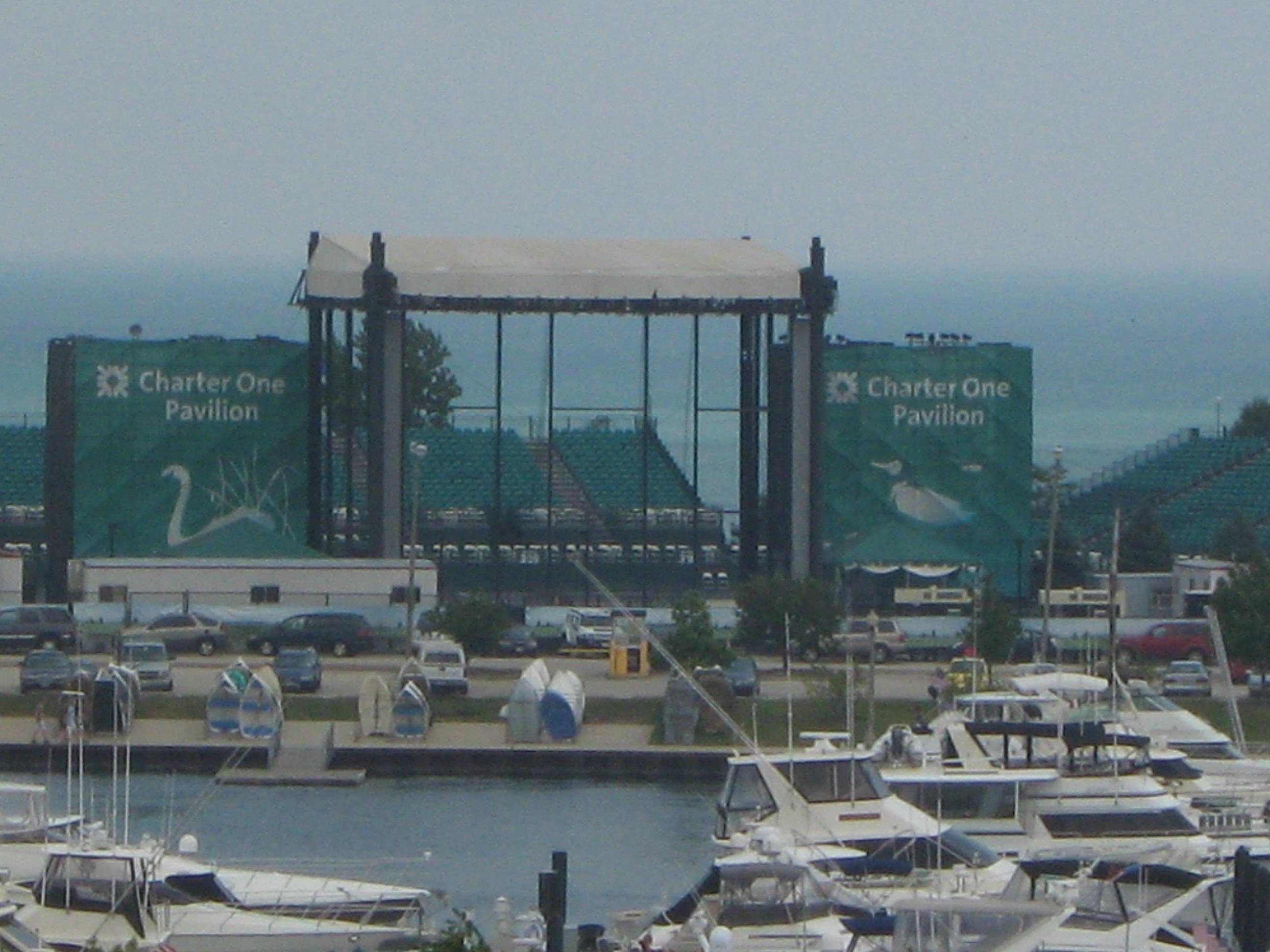 Charter One Pavilion at Northerly Island, Chicago, 2009